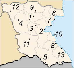 Burgas Province. Мunicipalities: 1 Aitos, 2 Burgas, 3 Kameno, 4 Karnobat, 5 Malko Tarnovo, 6 Nesebar, 7 Pomorie, 8 Primorsko, 9 Ruen, 10 Sozopol, 11 Sredets, 12 Sungurlare, 13 Tsarevo